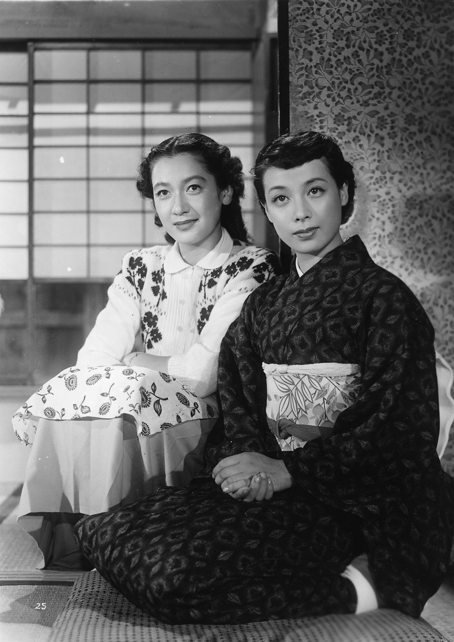 Setsuko Hara and Chikage Awashima in Bakushu (1951)